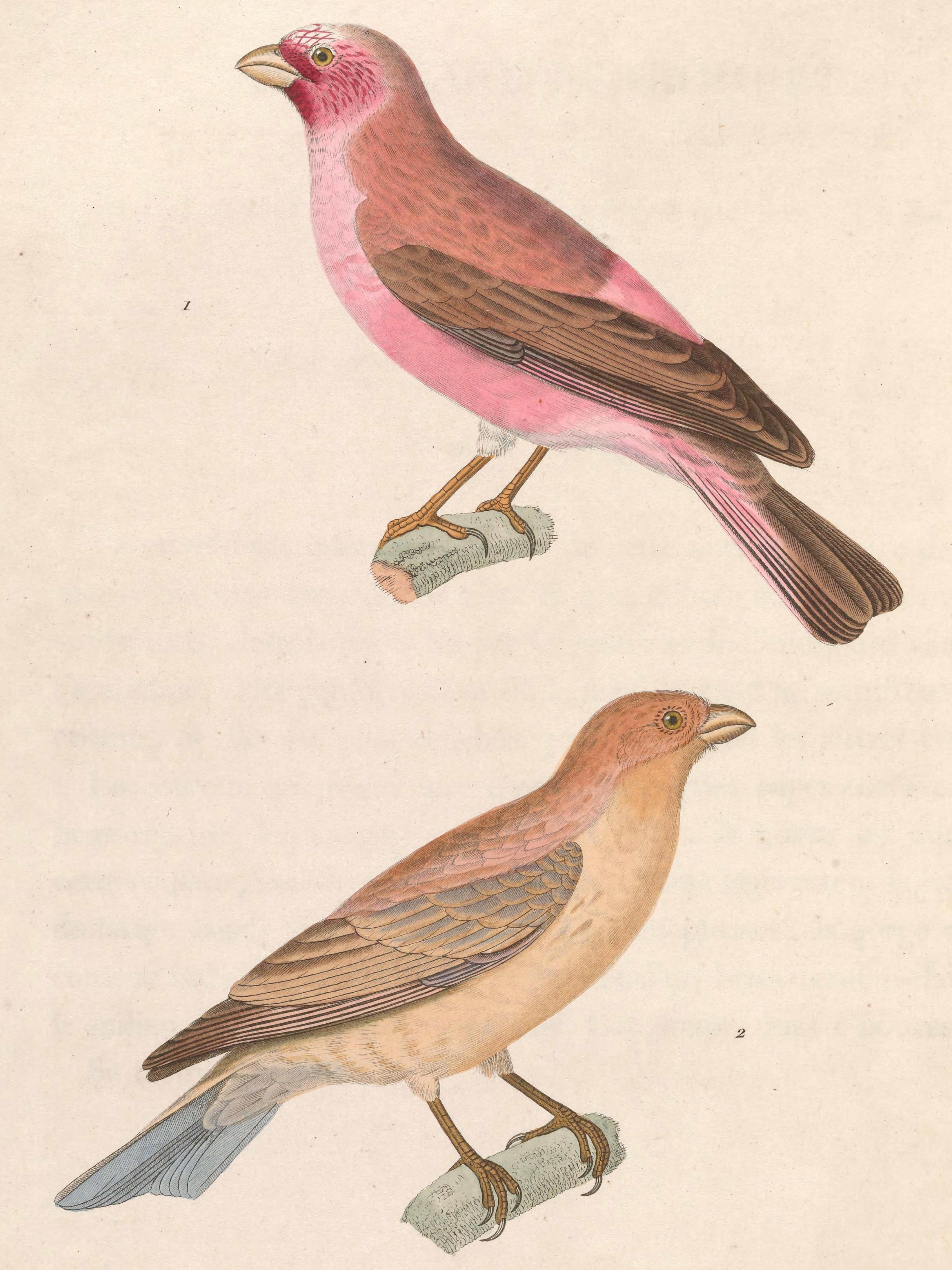 « Pyrrhula synoica » = Carpodacus synoicus (Pale Rosefinch) - male and female